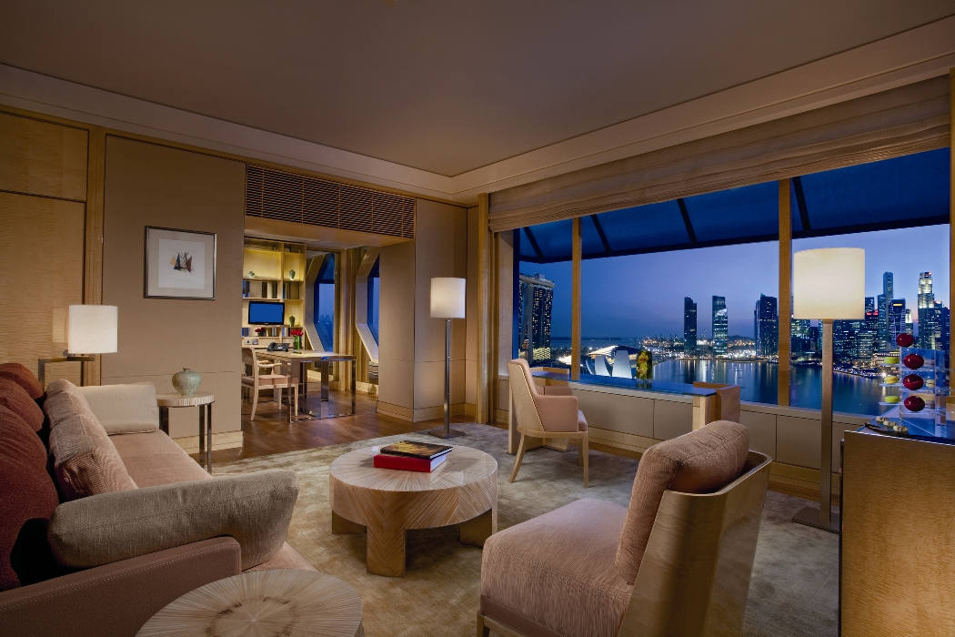 Newly renovated in 2011, the one-bedroom Millenia suite of The Ritz-Carlton Millenia Singapore is perfect for travellers who enjoy spacious surroundings. The furniture is arranged to take advantage of the incredible views of Marina Bay. The marbled bathroom also offers panoramic city views and has been dubbed the "sexiest bathrooms in the city".